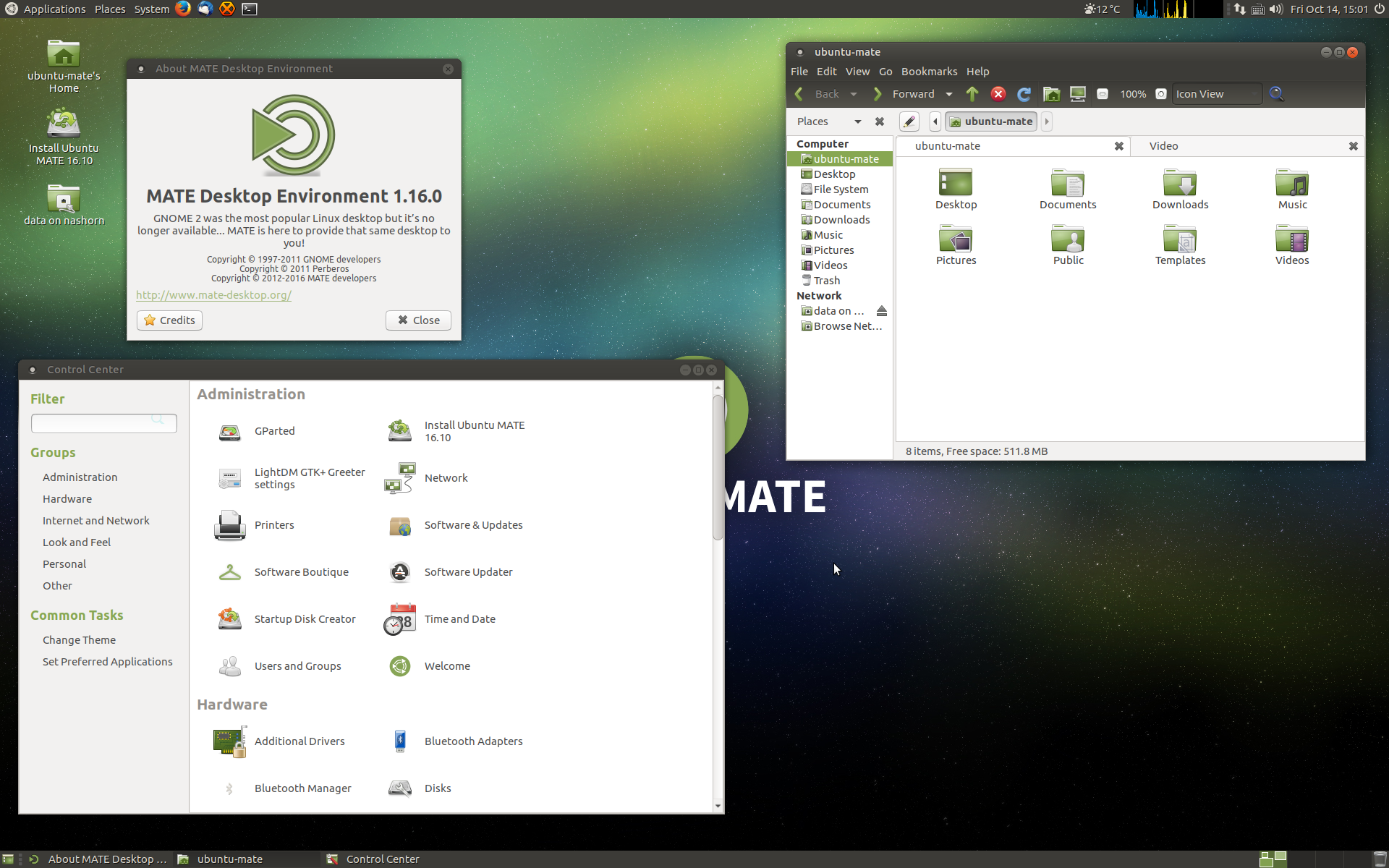 Screenshot of Ubuntu MATE 16.10 desktop